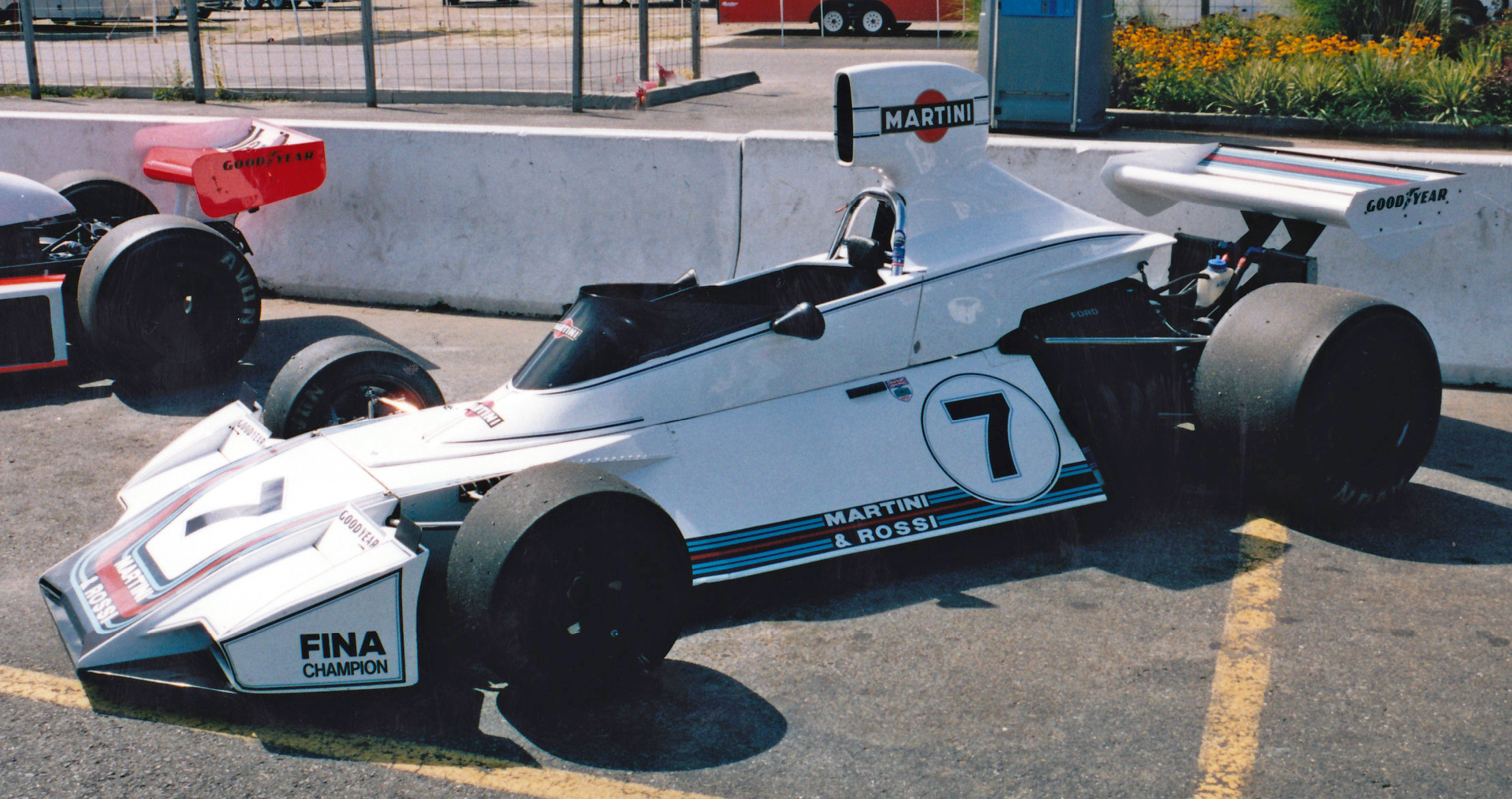 1975 Brabham BT44B (ex-Carlos Reutemann) in the pits at the 2003 Lime Rock vintage race.